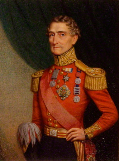 Sir Harry Smith, 1st Baronet (1787-1860)